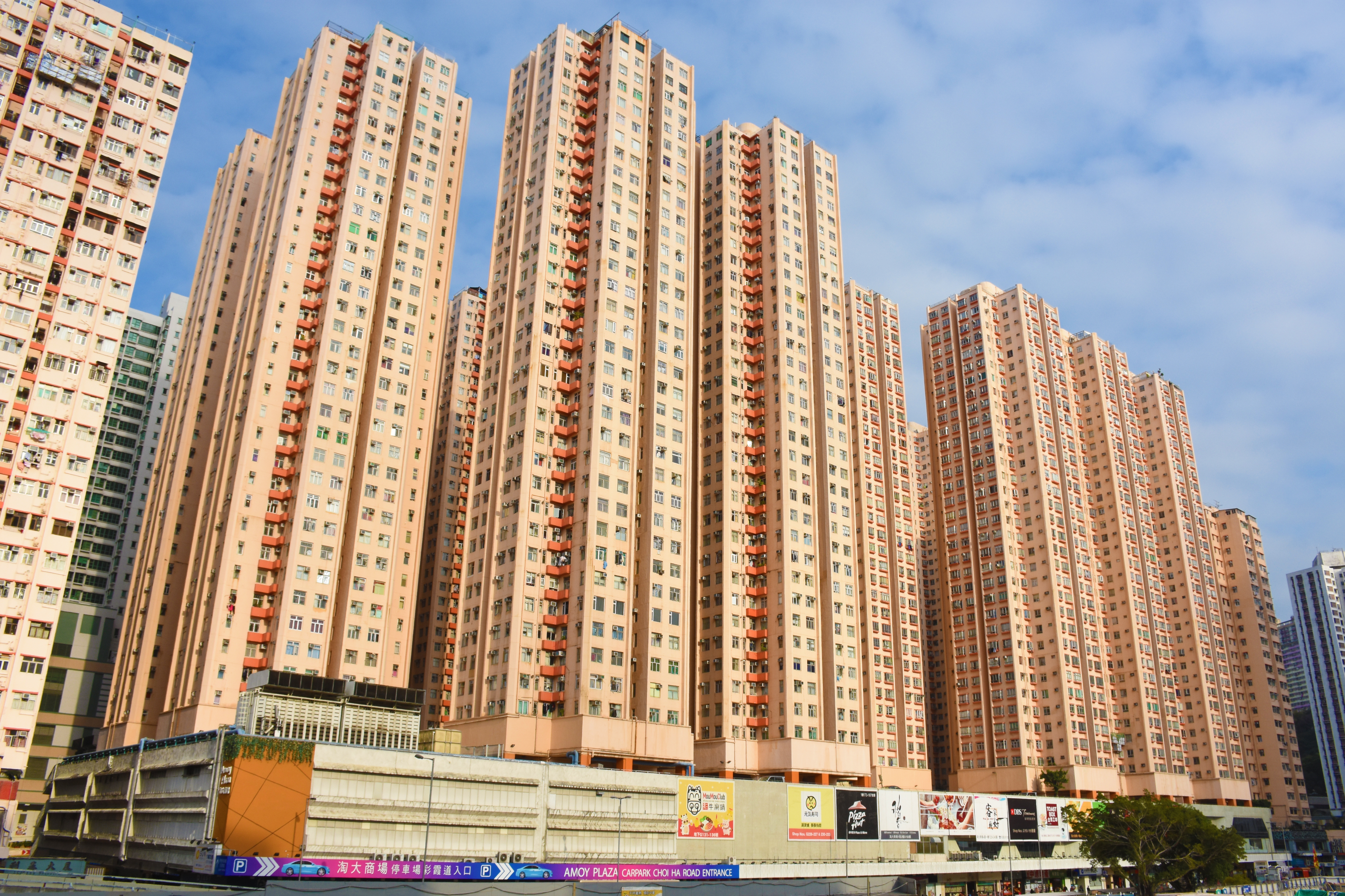 Amoy Gardens, Ngau Tau Kok.